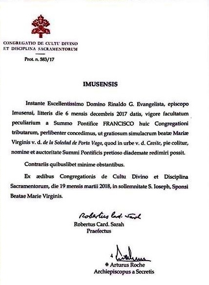 The Decree of Canonical Coronation of the Nuestra Señora de la Soledad de Porta Vaga sent by the Congregation for Divine Worship and Discipline of the Sacraments to the Diocese of Imus.